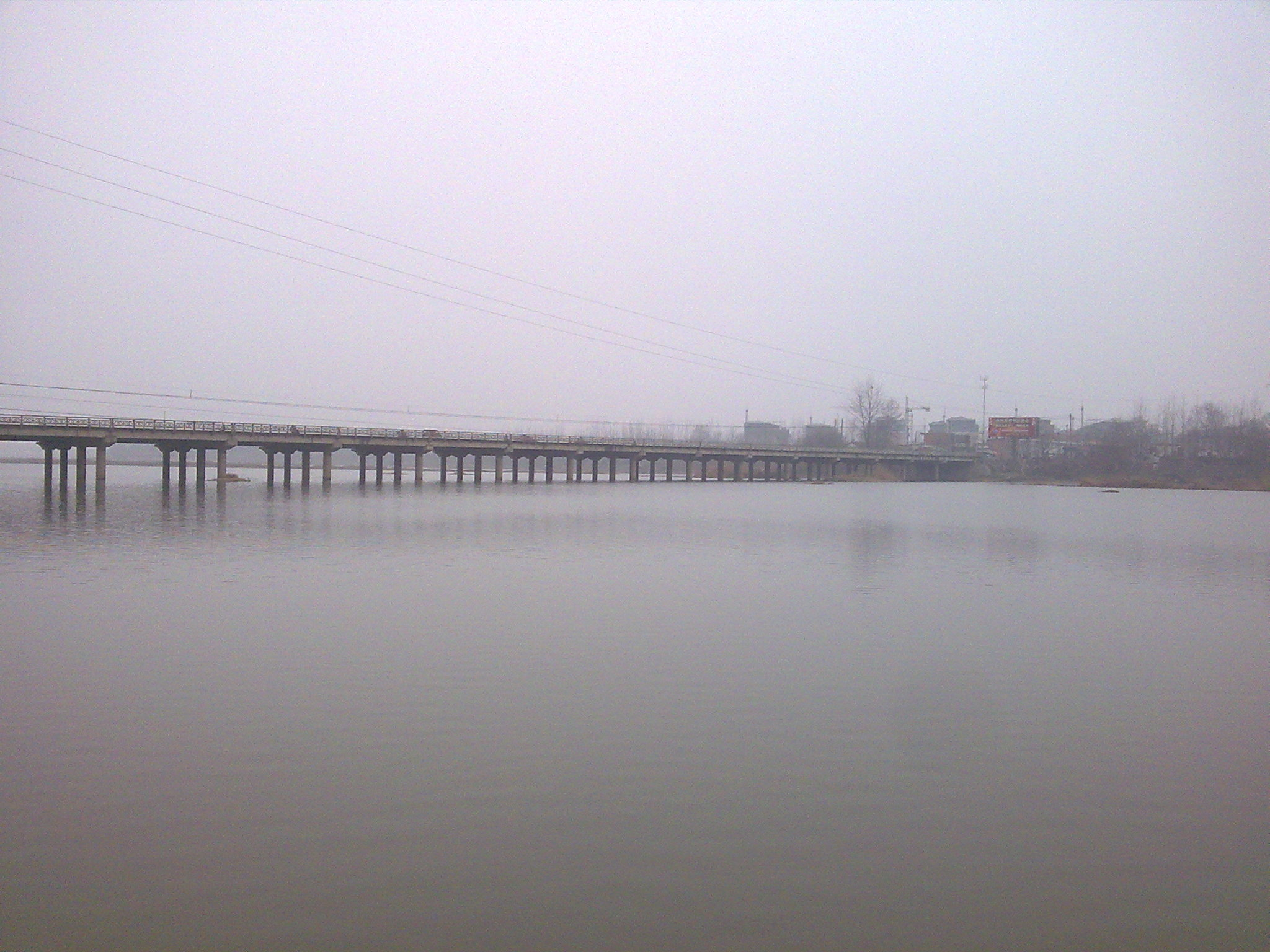 Shiguan River (Shiguanhe) and bridge — in Gushi, Henan, PRC. Tributary of the Chang Jiang (Yangtze River).